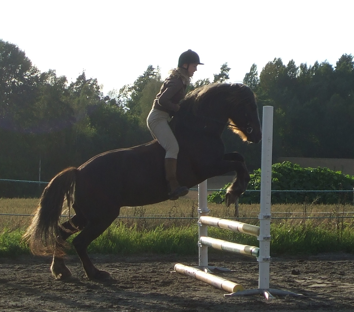 Norwegian Draft Trotter jumping 90 cm.